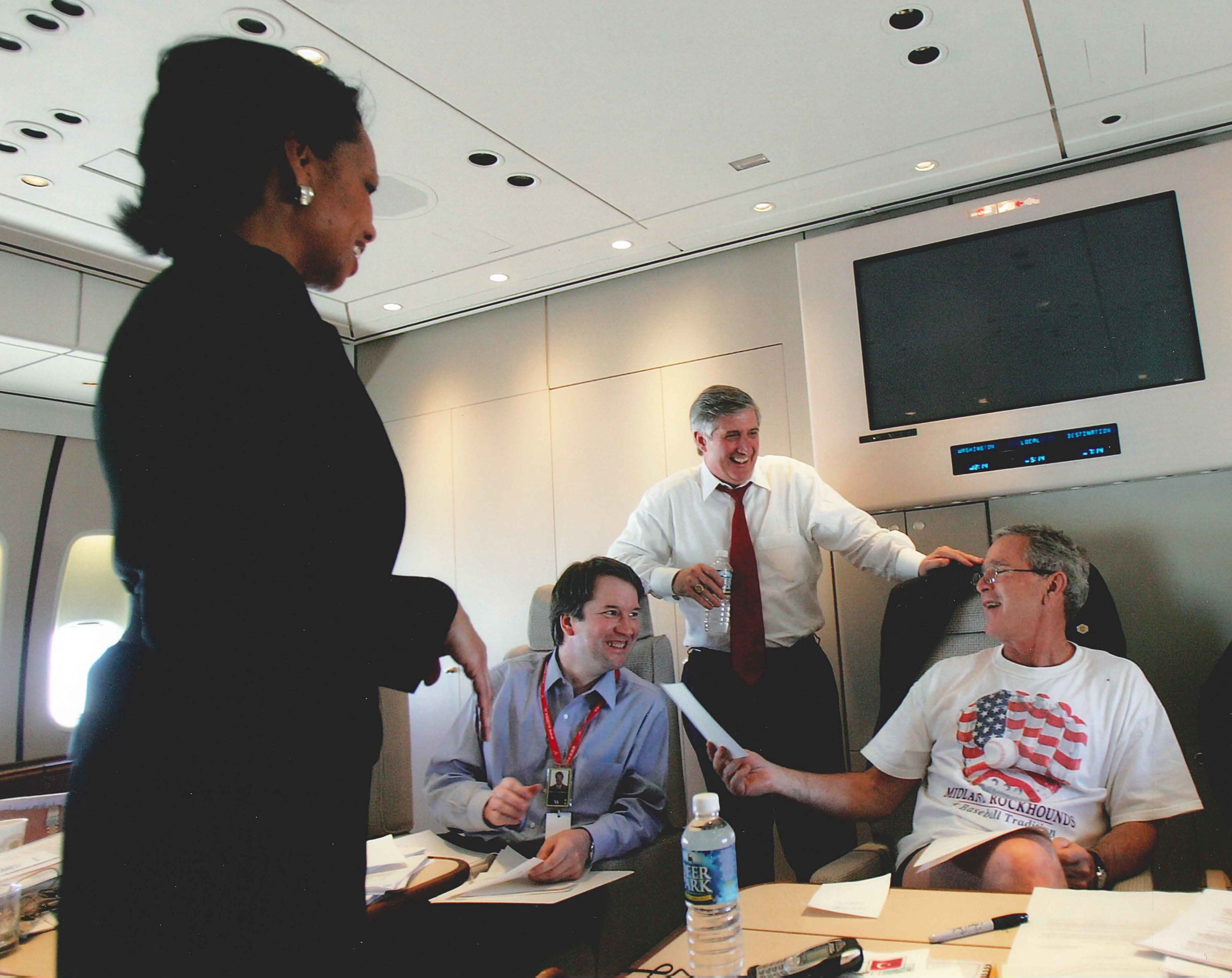 President George W. Bush with Brett Kavanaugh, Andy Card, and Condoleezza Rice. Part of a slide show, "A Remarkable Career in Photos: Judge Kavanaugh to Testify Before the Senate"